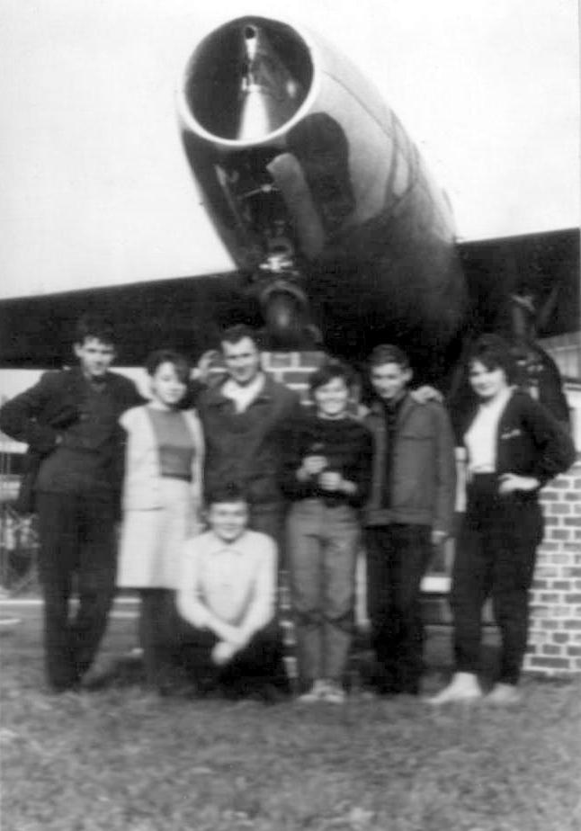 Yakovlev Yak-23